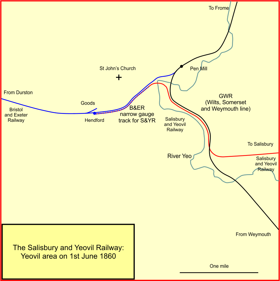 Diagram of the Salisbury and Yeovil Railway line at Yeovil on opening day in 1860